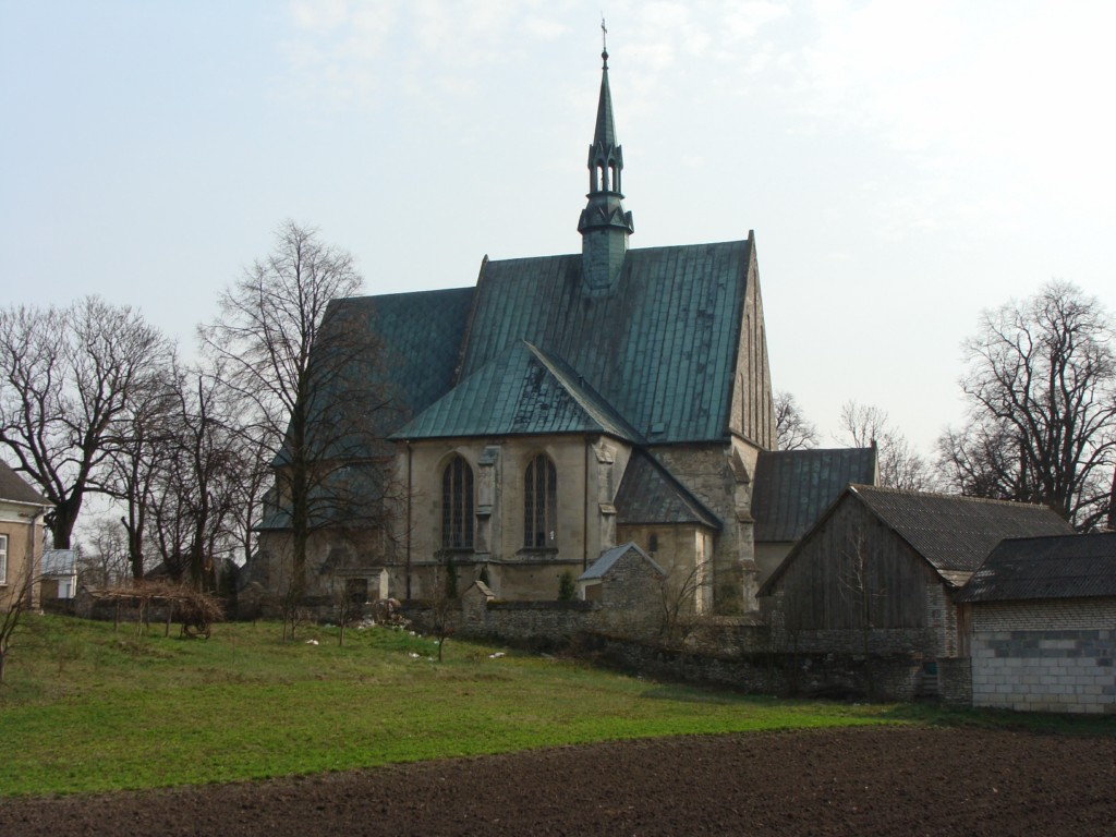 Church in Szaniec